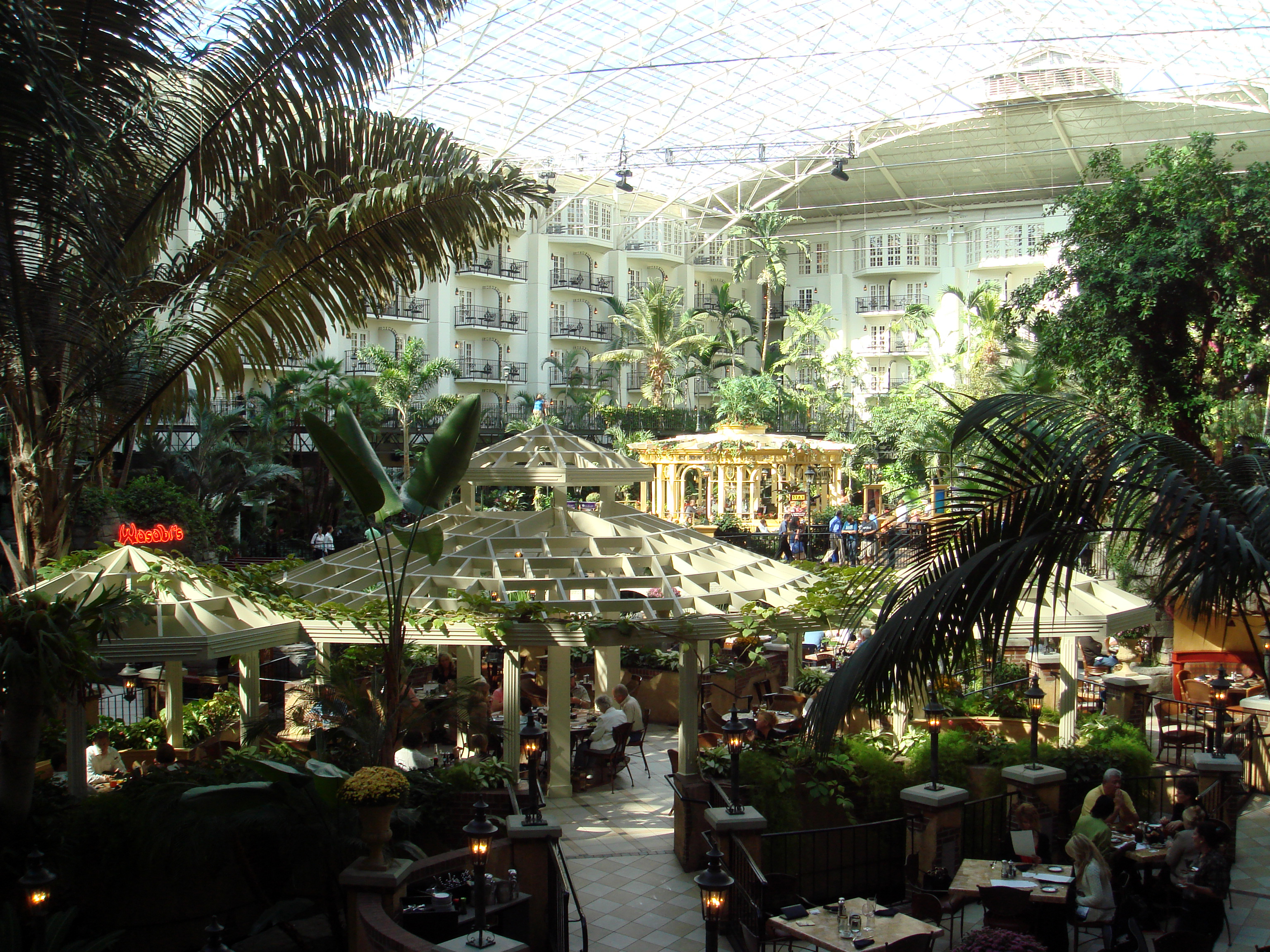 Cascade Atrium, Gaylord Opryland Resort & Convention Center, Nashville, Tennessee